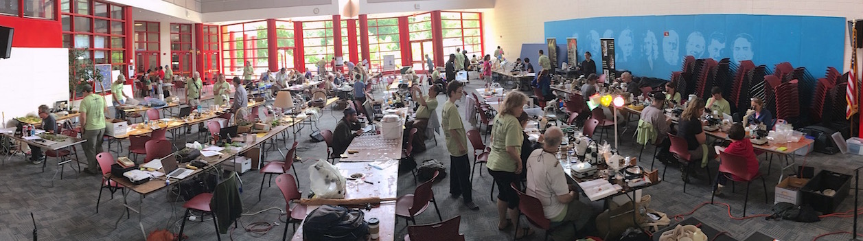 2016 Connecticut State BioBlitz scientists in the Great Hall of the Two Rivers Magnet School in East Hartford working to identify organisms they discovered within a 5-mile radius of the school.